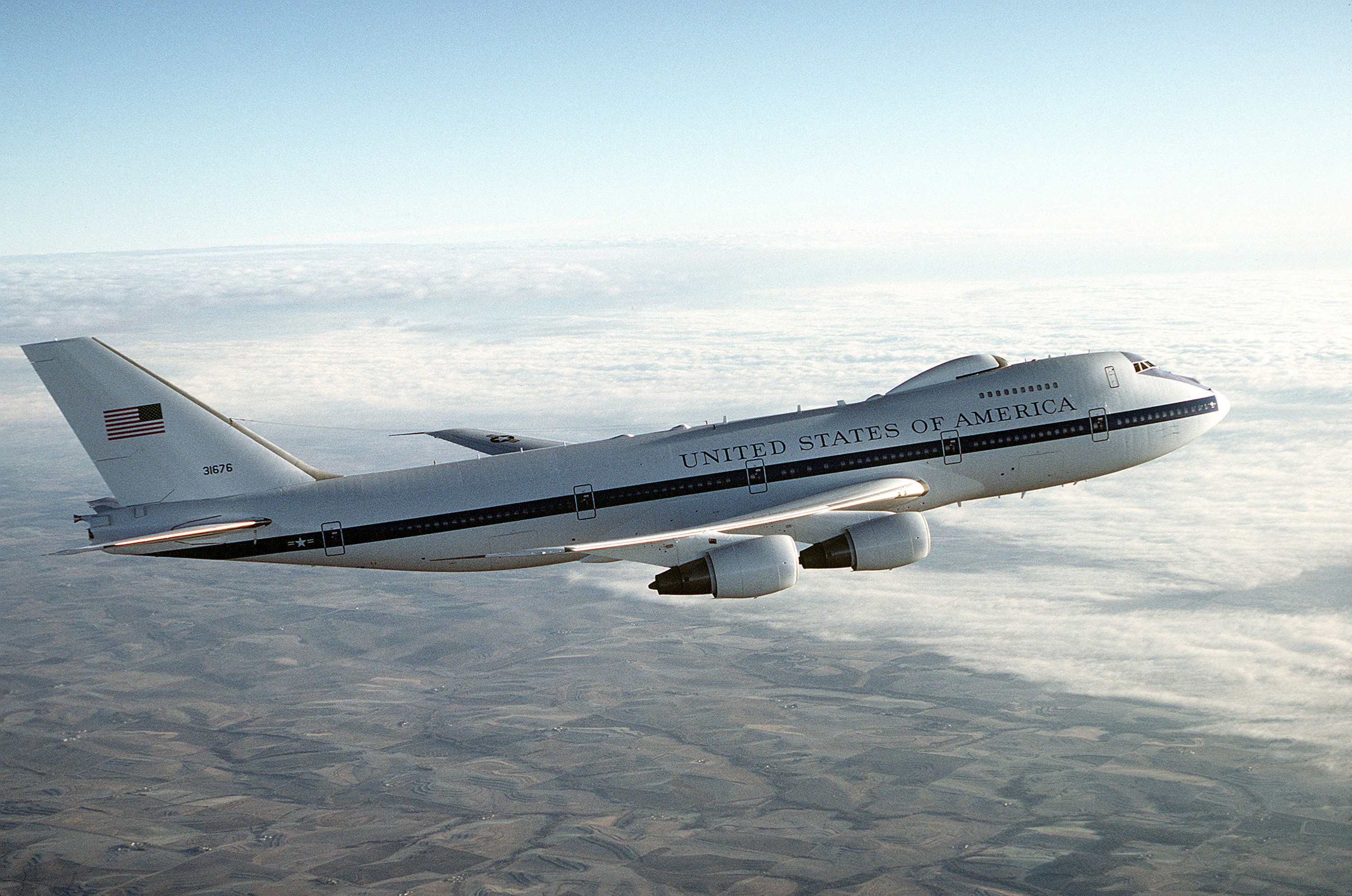 The Boeing E-4B Nightwatch, the command-plane of the United States Air Force. Call Sign USAF-31676